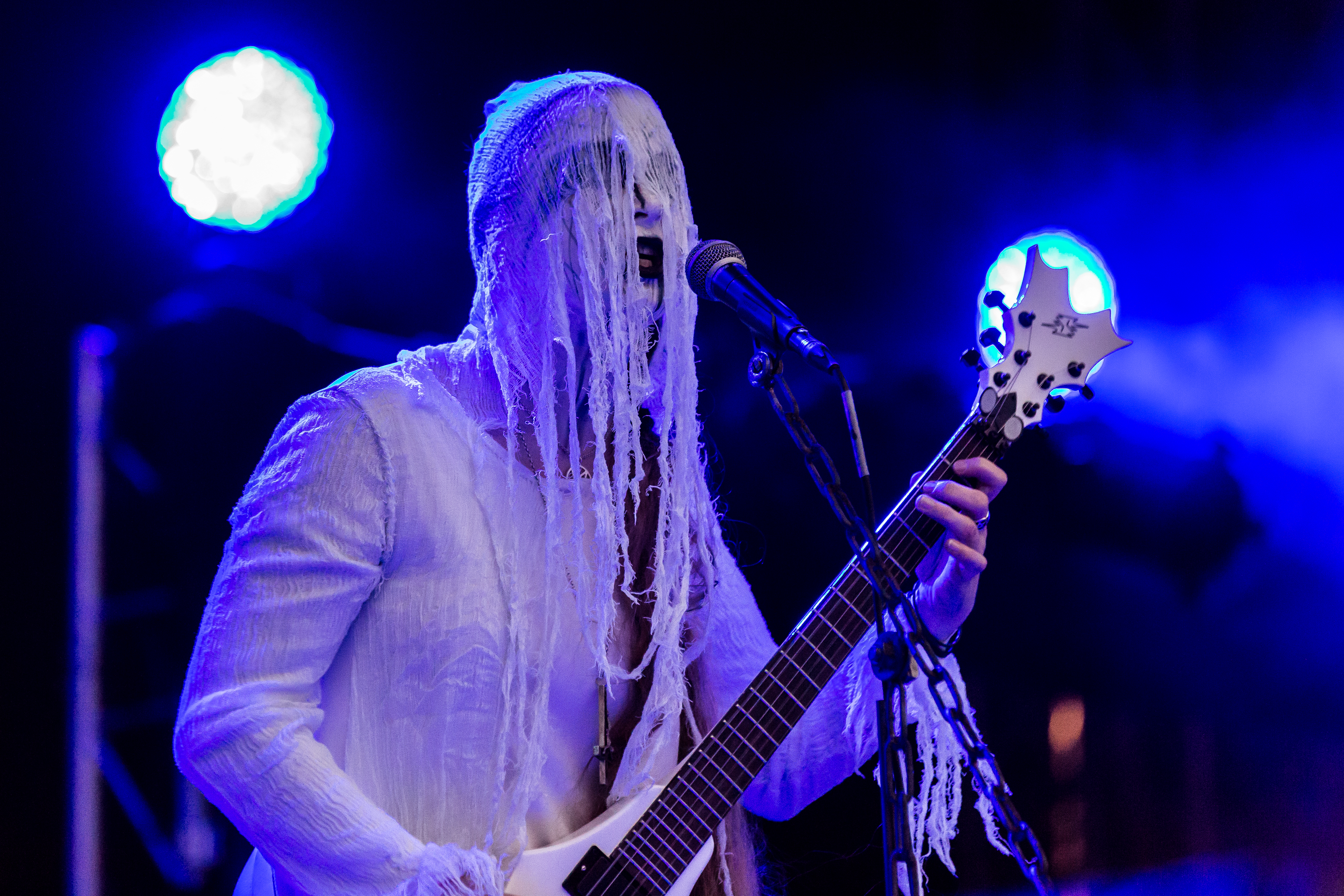 The German black metal band Darkened Nocturn Slaughtercult at the Party.San Metal Open Air 2016 in Obermehler-Schlotheim/Germany.